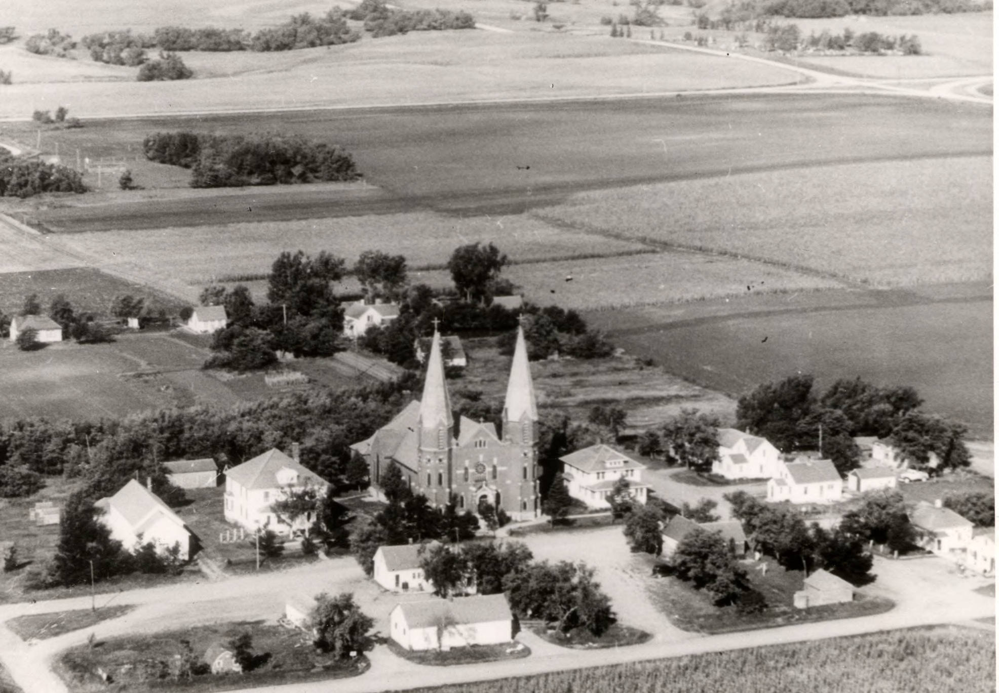 An aerial view of Wilno, Minnesota. St. John Cantius Church is in the center of the photograph. Image from the St. John Cantius Roman Catholic Church records, Immigration History Research Center Archives, University of Minnesota Libraries.